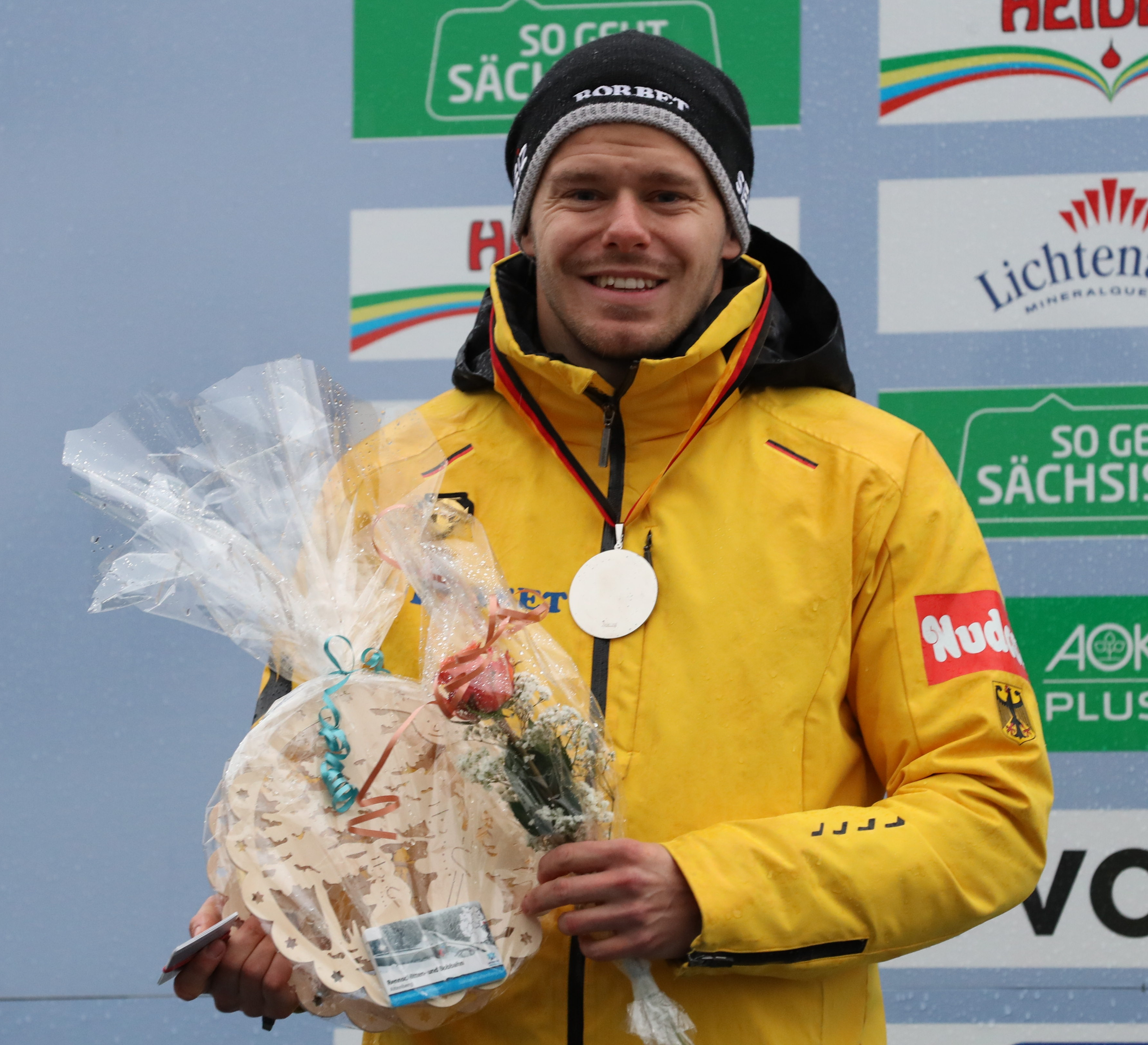 Victory ceremonies at the German Skelton Championships 2018/19 in Altenberg